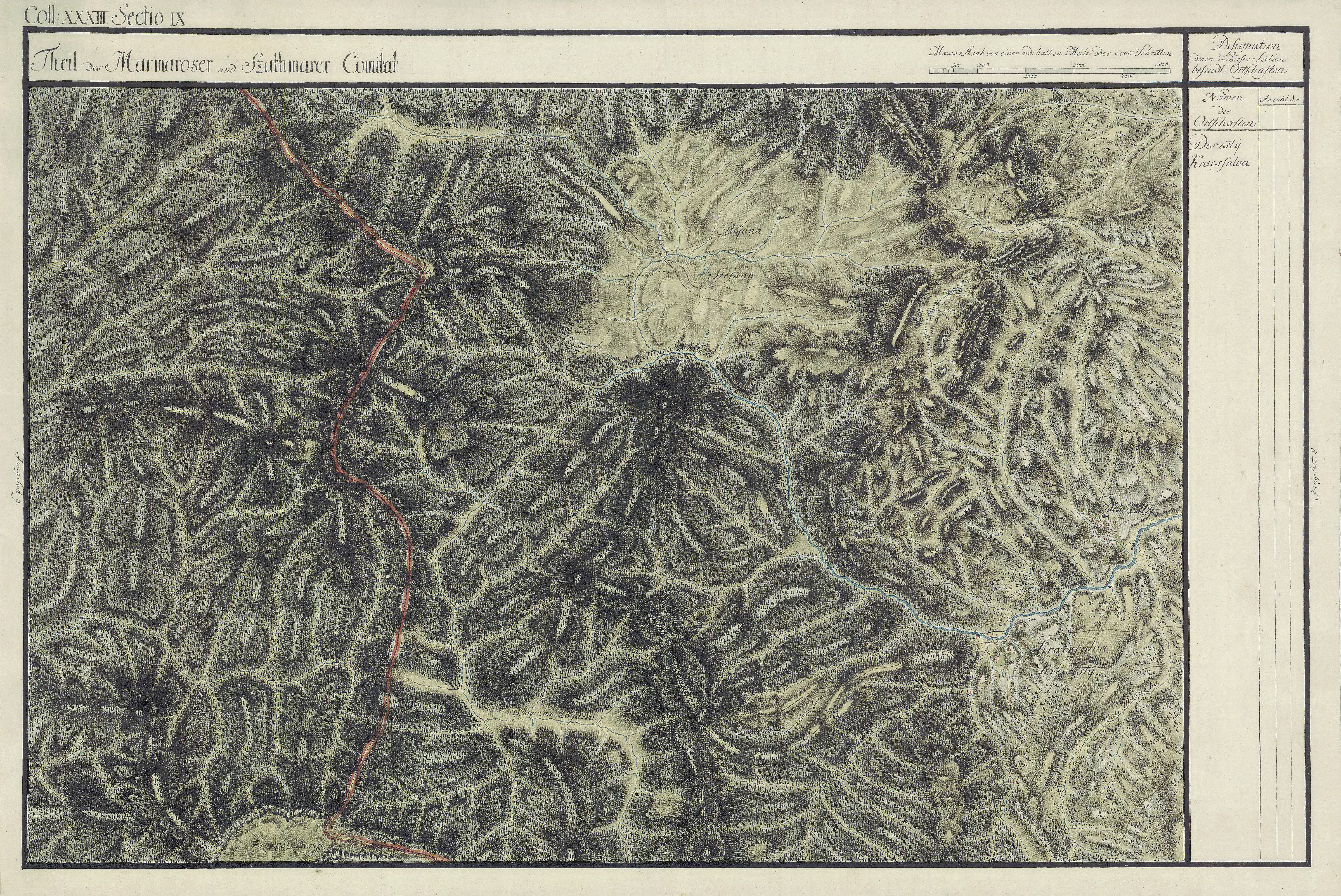 Maramureş County, 1769-1773. Josephinische Landesaufnahme pg.33-09